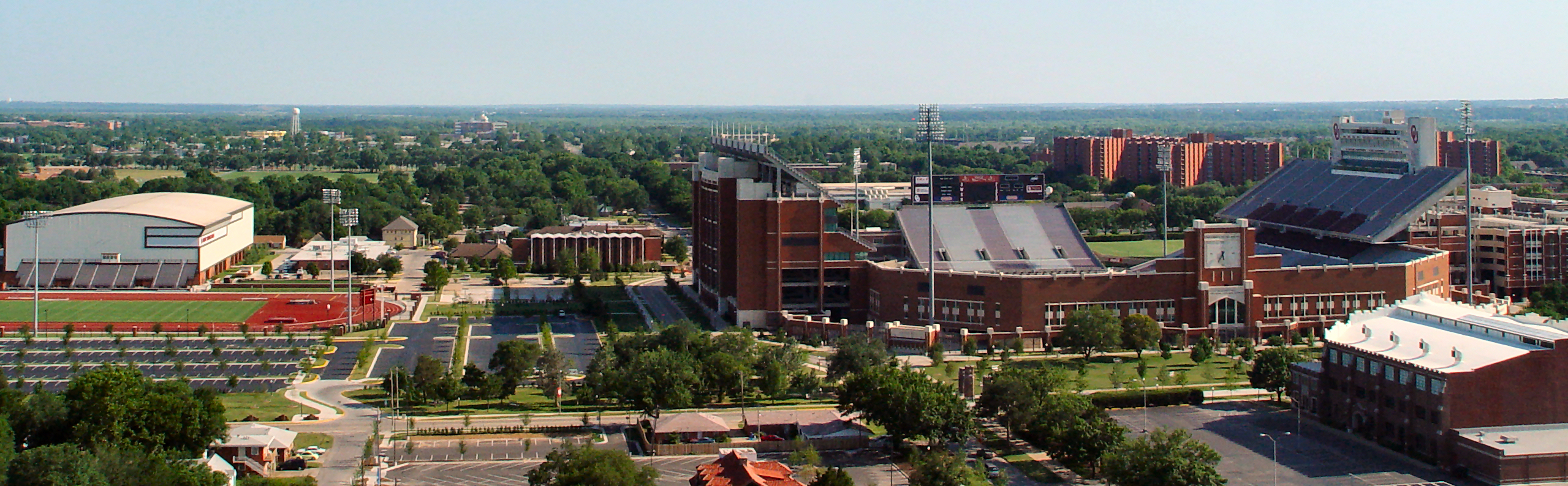 Several University of Oklahoma athletic facilities, including the Gaylord Family Oklahoma Memorial Stadium, McCasland Field House, and Jacobs Track and Field Facility, seen from the roof of Sarkey's Energy Center